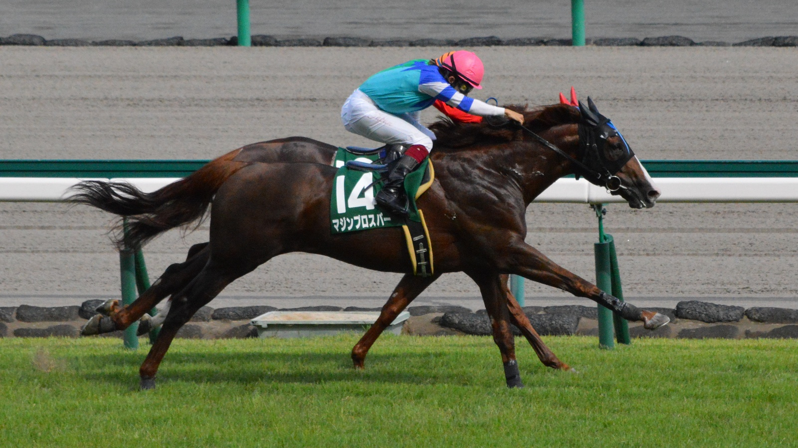 Japanese race horse Majin Prosper at Chukyo racecourse. Chukyo (JPN) 30 Jun 2013 CBC Sho Handicap (Grade 3) (Turf) (3yo+) 6f Firm RankHorse NameOddsAgeWgtTrainerJockey1stMajin Prosper (JPN)13/5FH69-2Hidemasa NakaoYuichi Fukunaga2ndDeus Vult (JPN)22/5C49-1Masato NishizonoManabu Sakai3rdSudden Storm (JPN)9/2C48-11Katsuichi NishiuraYuga Kawada4th - 14th/omission